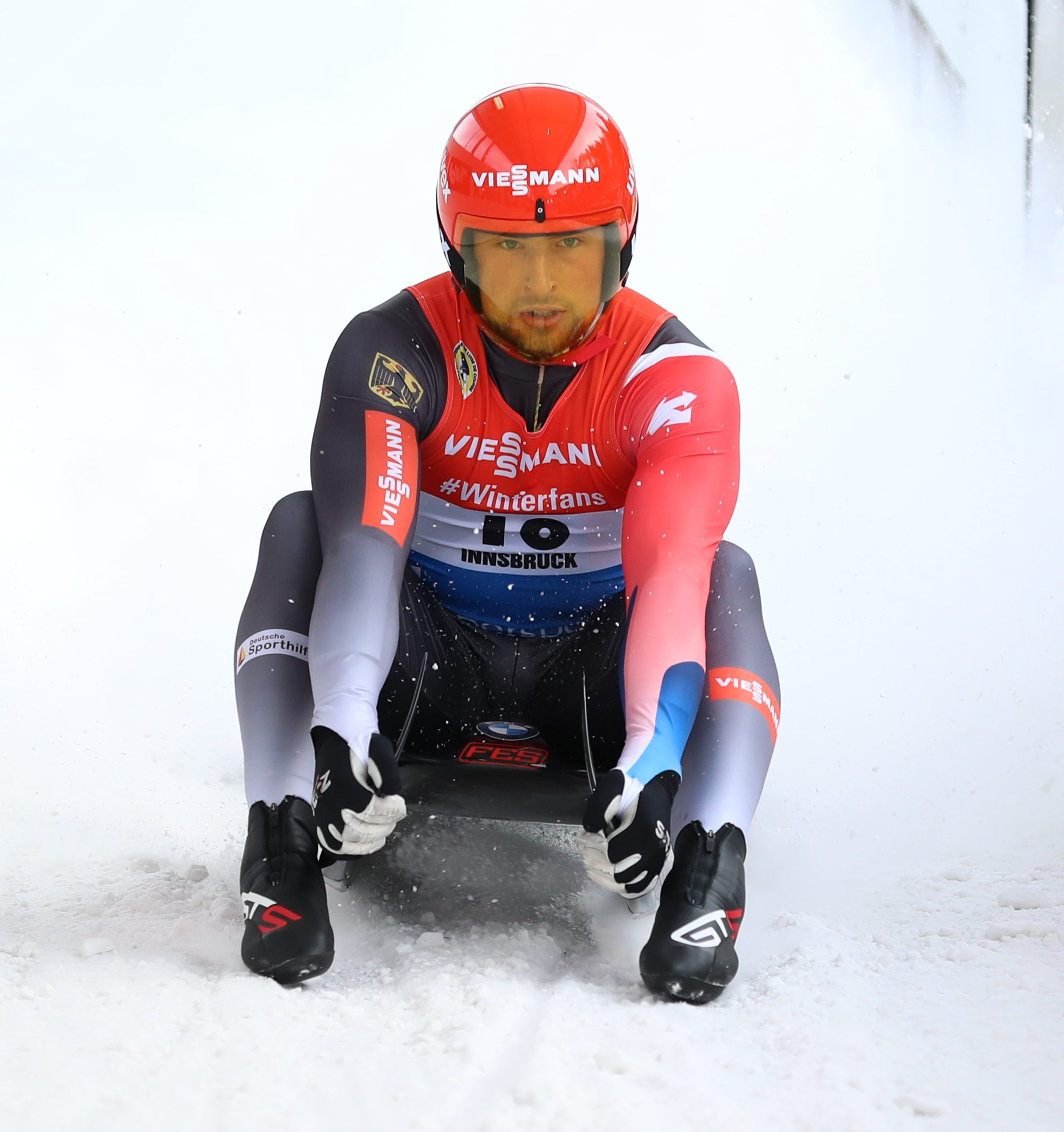 Men's World Cup race at the 2018/19 Luge World Cup in Innsbruck-Igls